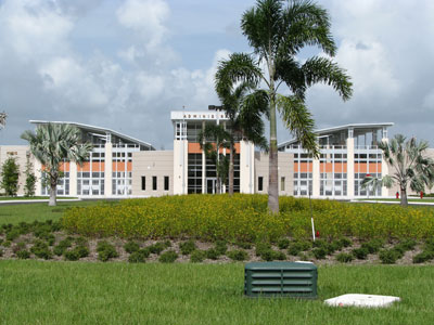 Photo of Heritage High School in Palm Bay, Florida